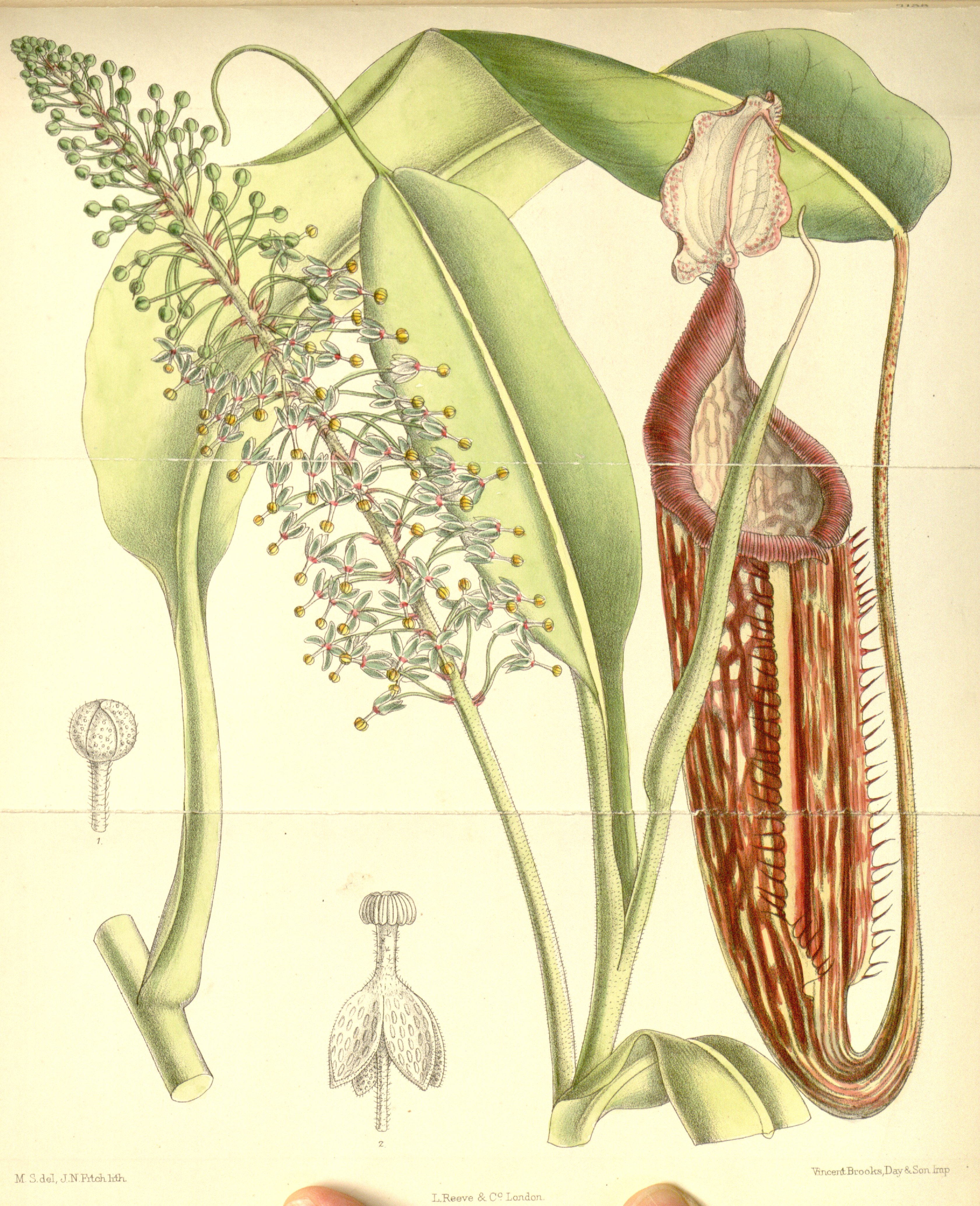 Nepenthes curtisii (N. maxima) from Curtis’s Botanical Magazine, vol. 116 [ser. 3, vol. 46]: t. 7138 (1890) [M. Smith]